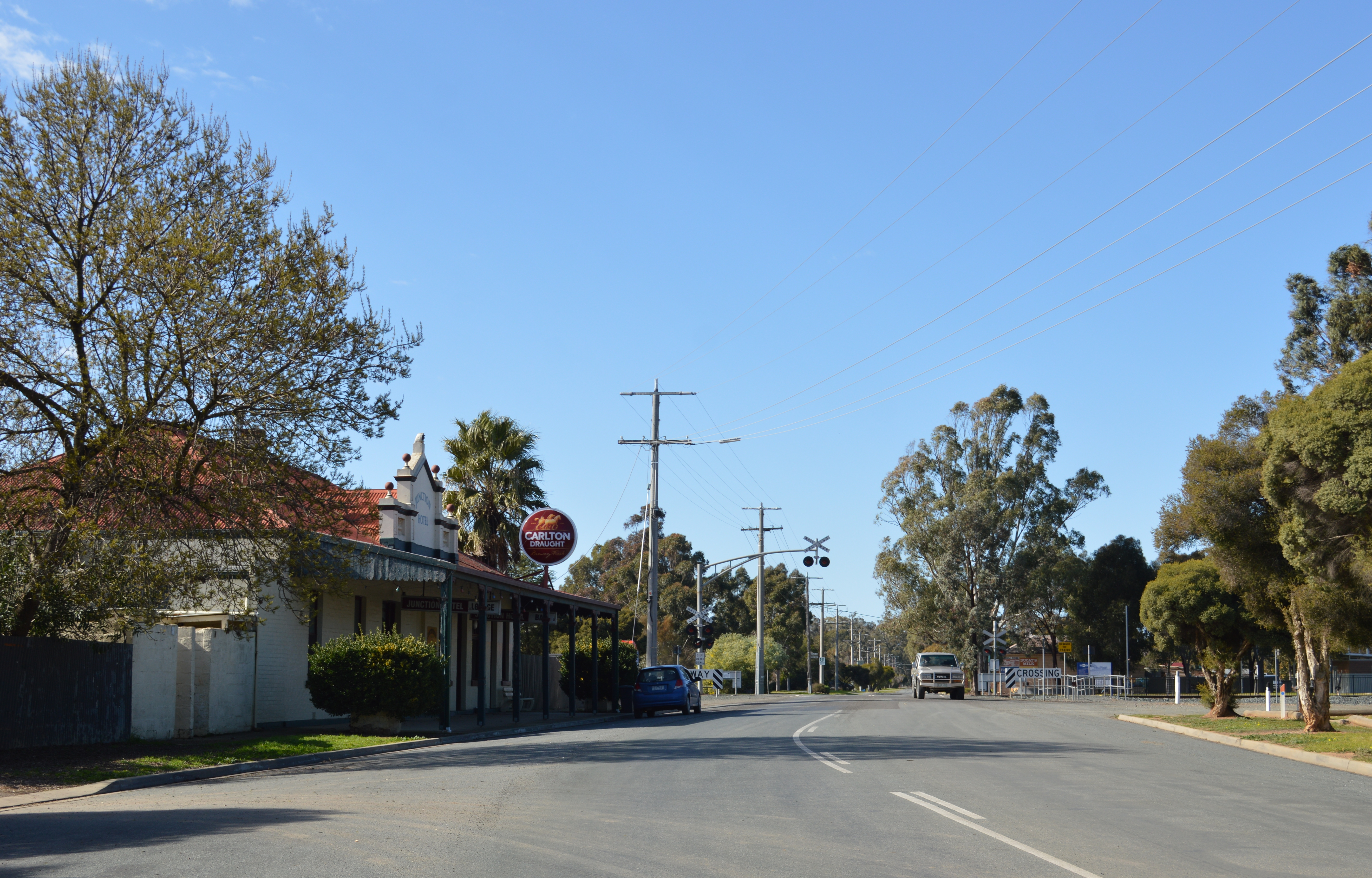 Wren St, the main street of Toolamba, Victoria